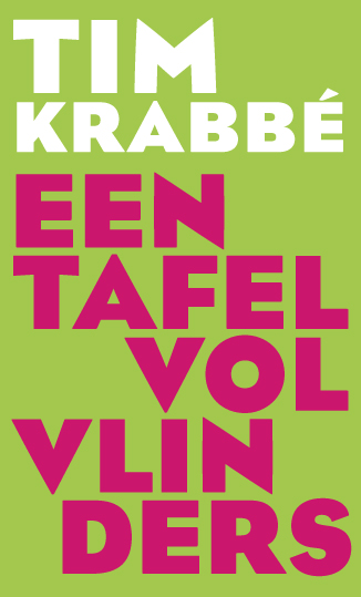 Cover of the Dutch Boekenweekgeschenk 2009, the novel 'Een tafel vol vlinders' by Tim Krabbé.